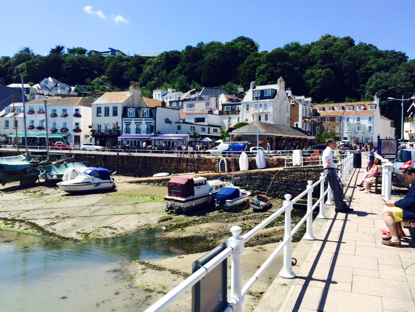 Photograph of St Aubin, Jersey. Andrew Henderson. 2015.